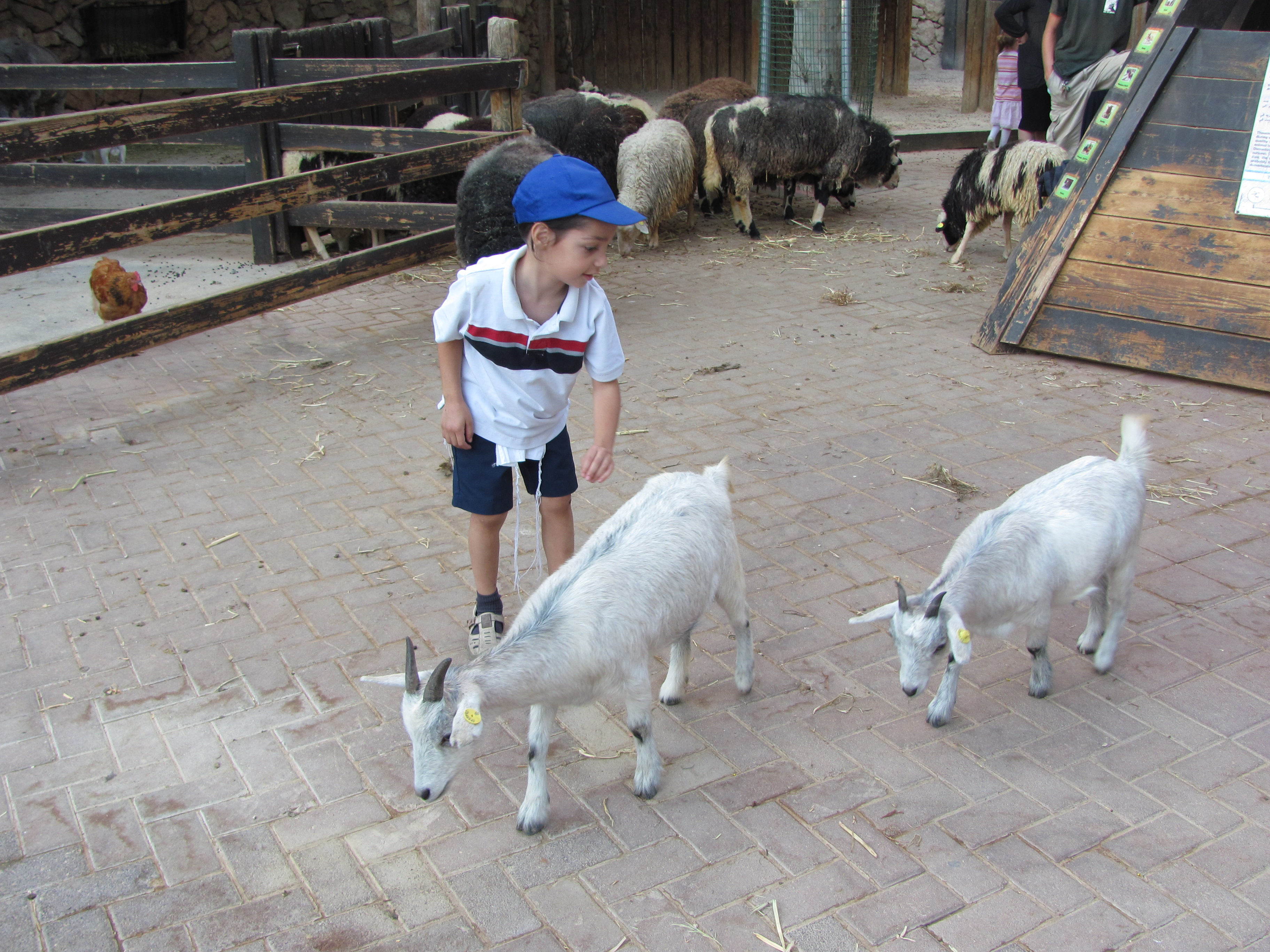 A boy in the children's petting corner at the Jerusalem Biblical Zoo.